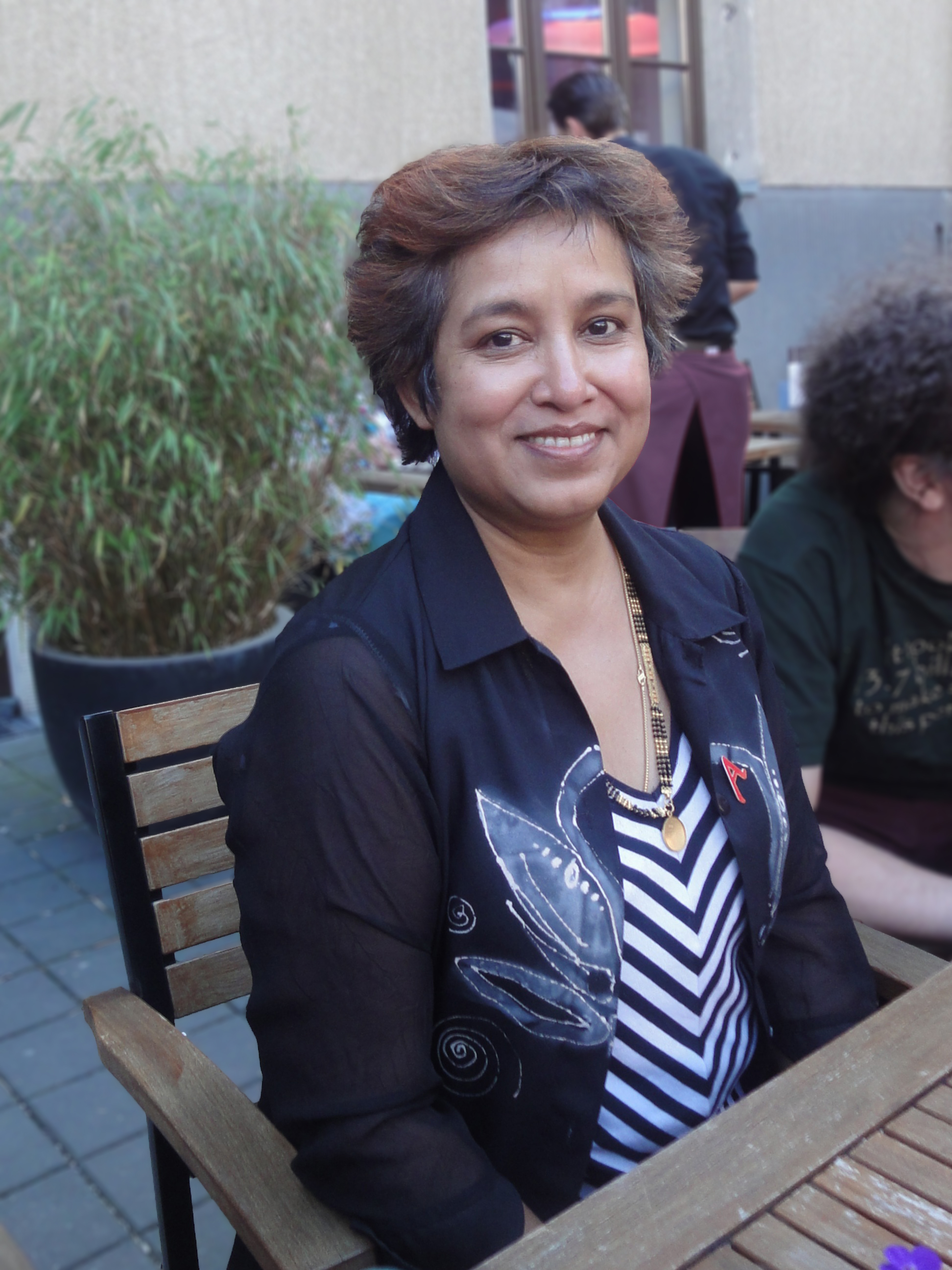 Taslima Nasrin, activist, author, physician